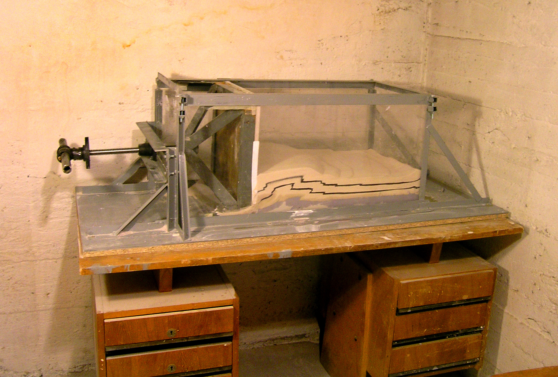 Modeling of geological bodies in Geophysical Institute AS CR in Prague, Czech Republic